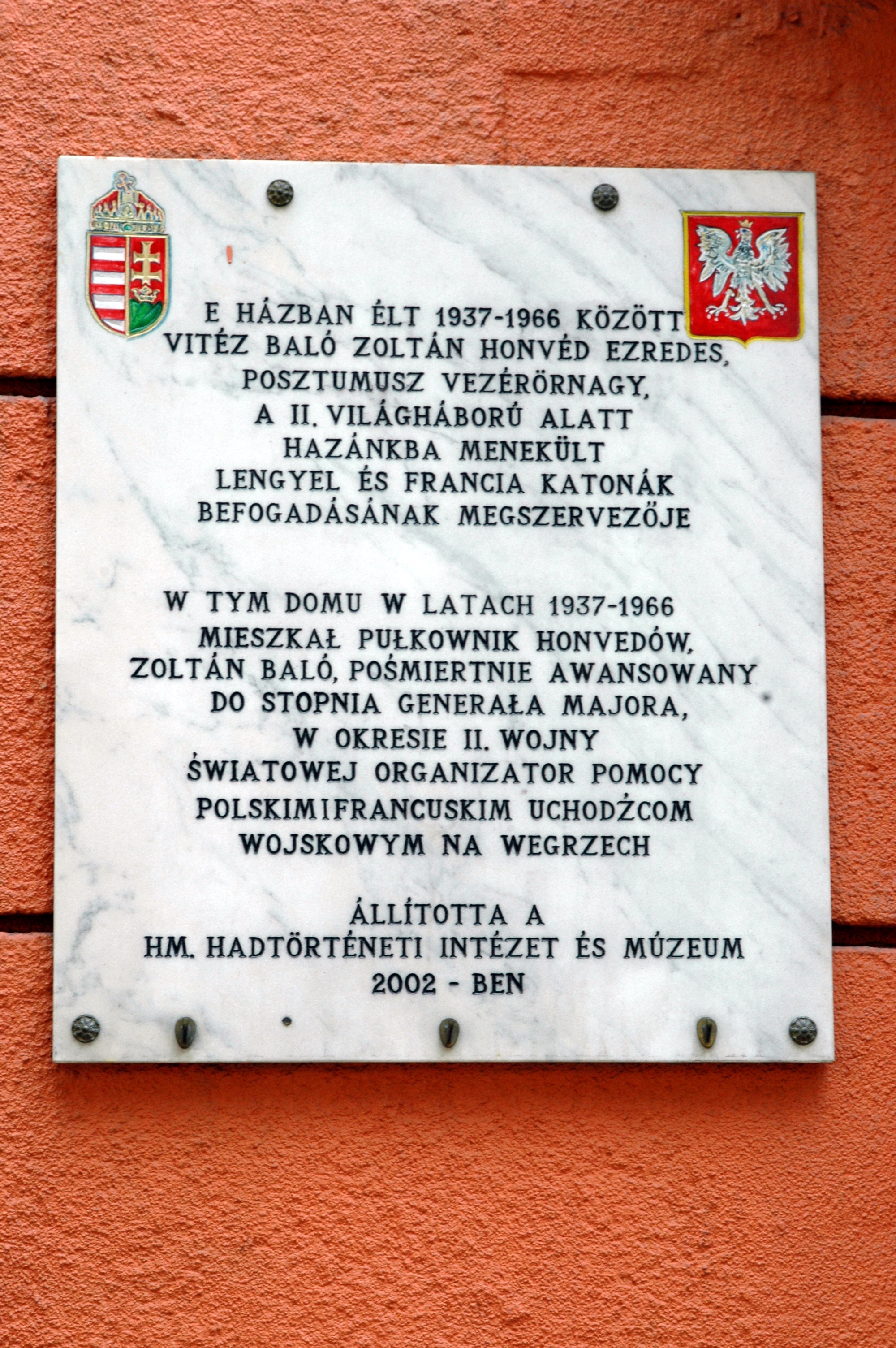 A tablet to Zoltan Balo, at a house in Budapest where he lived